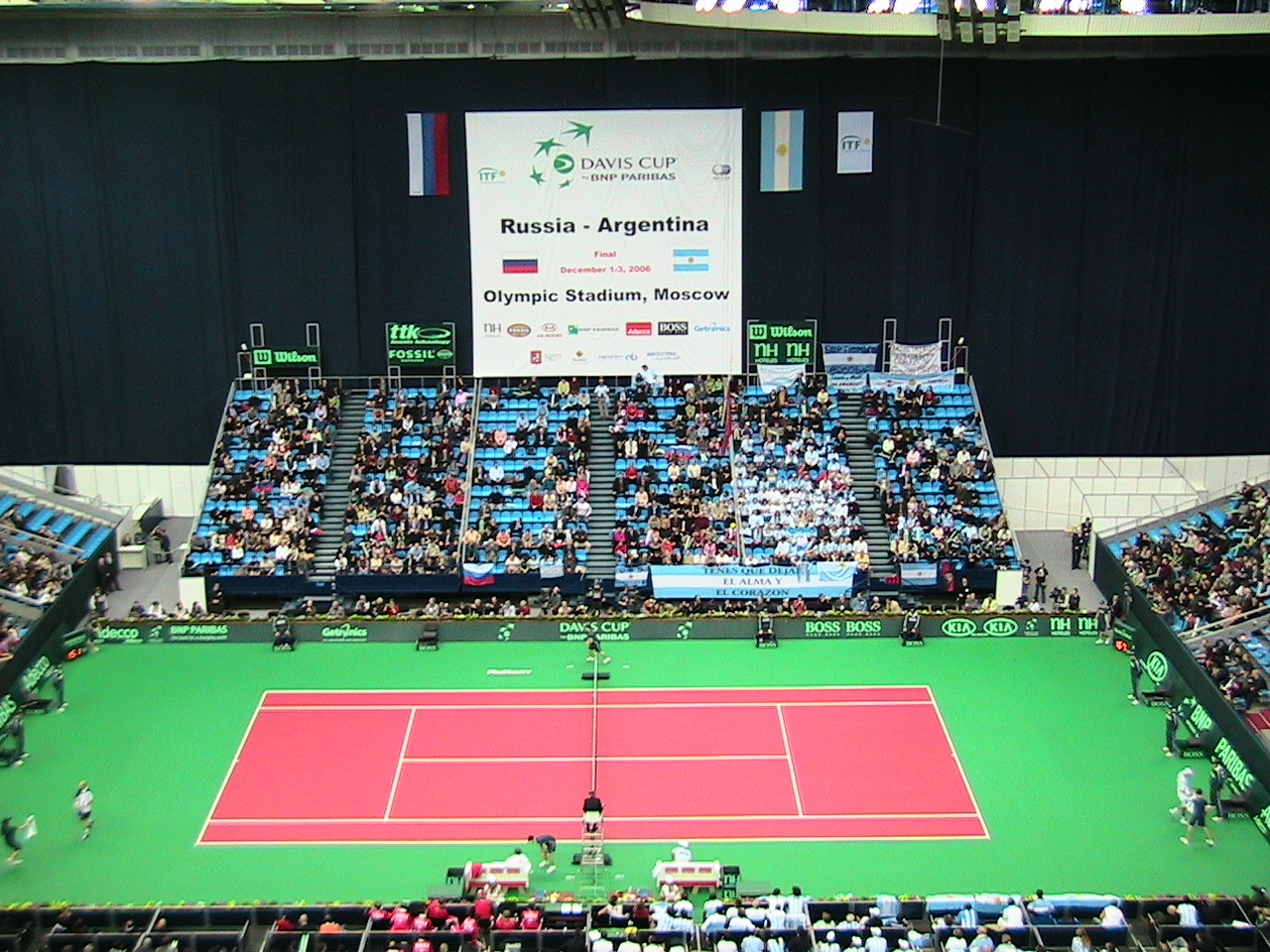 Overall view of Olympiysky, Moscow - venue of Davis Cup Final 2006 Russia - Argentina